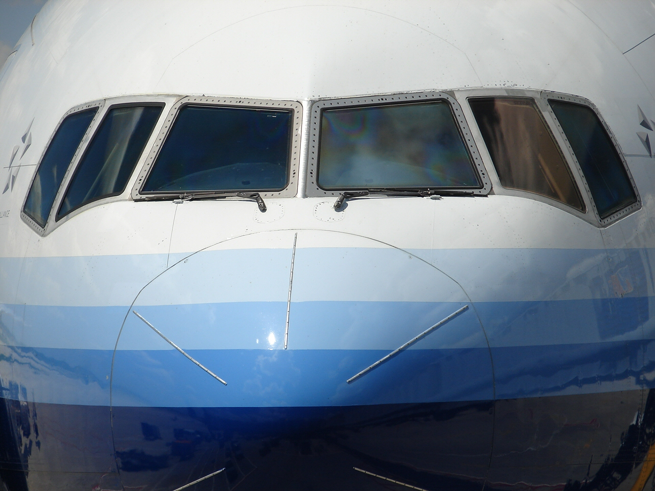 I sure do love this color scheme, and the 777 to boot!